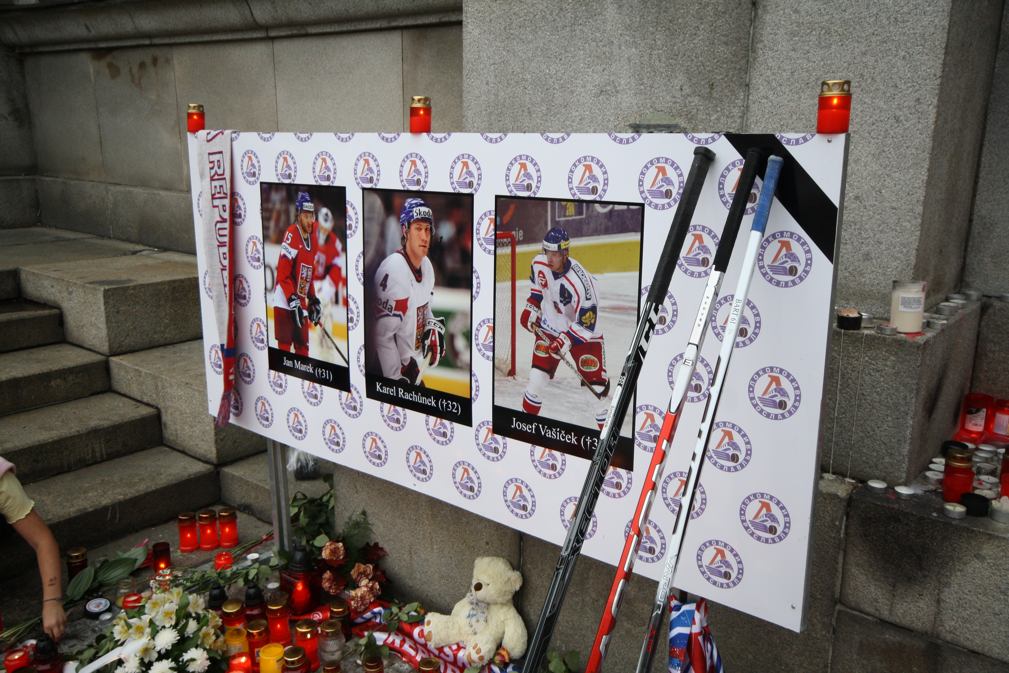 Memorial of 2011 Yaroslavl plane crash Czech victims in Liberec, detail of board.